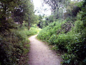 Newton Hollows — Sunken Path of Old Roman Road from Dewa to Wilderspool in Cheshire.